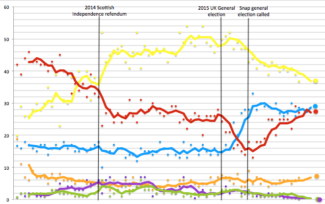 Opinion polls for the 2015 and 2017 general elections ever since 2010.